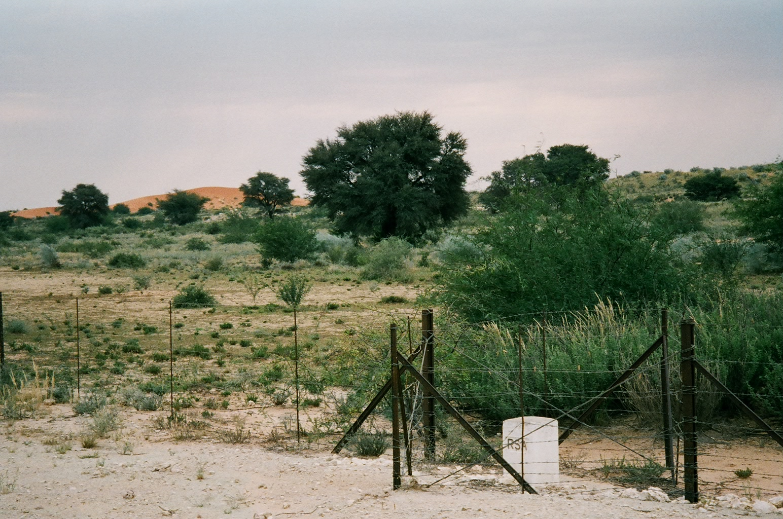 Border fence separating South Africa and Botswana in the dry Nossob Riverbed. The South African border mark is visible in the foreground, and a Kalahari red dune in the distance. Picture taken from RSA, looking towards Botswana, on the road between Twee Rivieren and Upington about 30km south of the main Kgalagadi Transfrontier Park entrance.